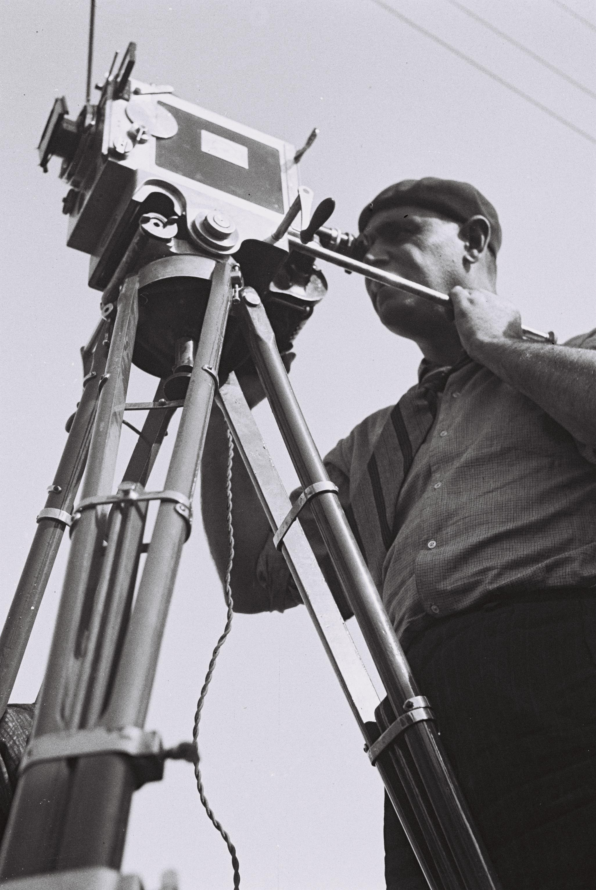 Dancer/painter/film producer Baruch Agadati. הרקדן הצייר ומפיק הסרטים ברוך אגדתי. Photo: Zoltan Kluger (1896–1977) Alternative names Qlwger, Zwlṭan; Zolṭan Ḳluger; Kluger, Z.; W. von Szigethy; W. Von SzighethyDescriptionHungarian-Israeli photographerDate of birth/death 8 February 1896 16 May 1977Location of birth/death Kecskemét ManhattanAuthority control : Q7035699 VIAF: 19504001 ISNI: 0000 0000 6686 1613 ULAN: 500483392 LCCN: no2008144265 Open Library: OL6614008A WorldCat creator QS:P170,Q7035699 , 10/07/1937.